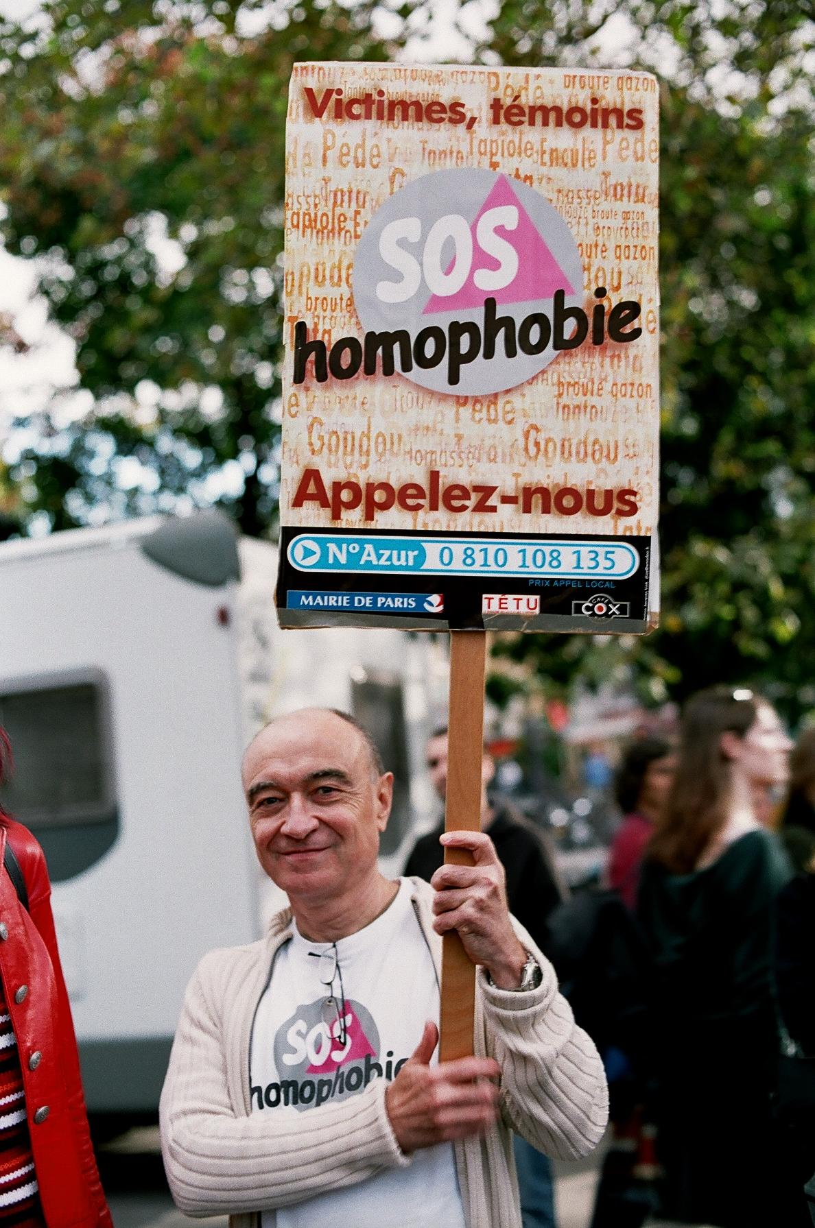 An activist of SOS Homophobia in a demonstration in Paris